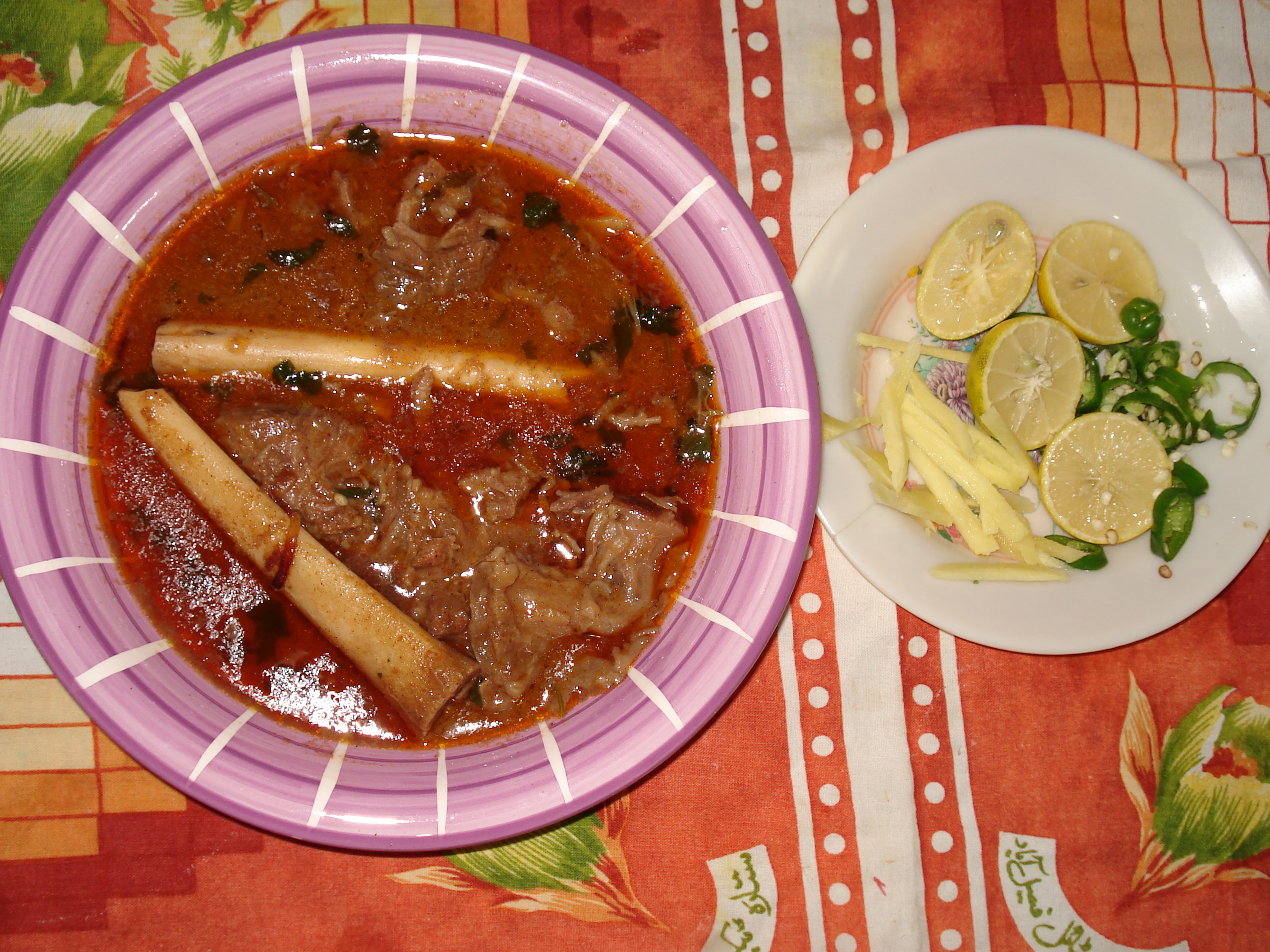 Nihari with nihari salad in Pakistan